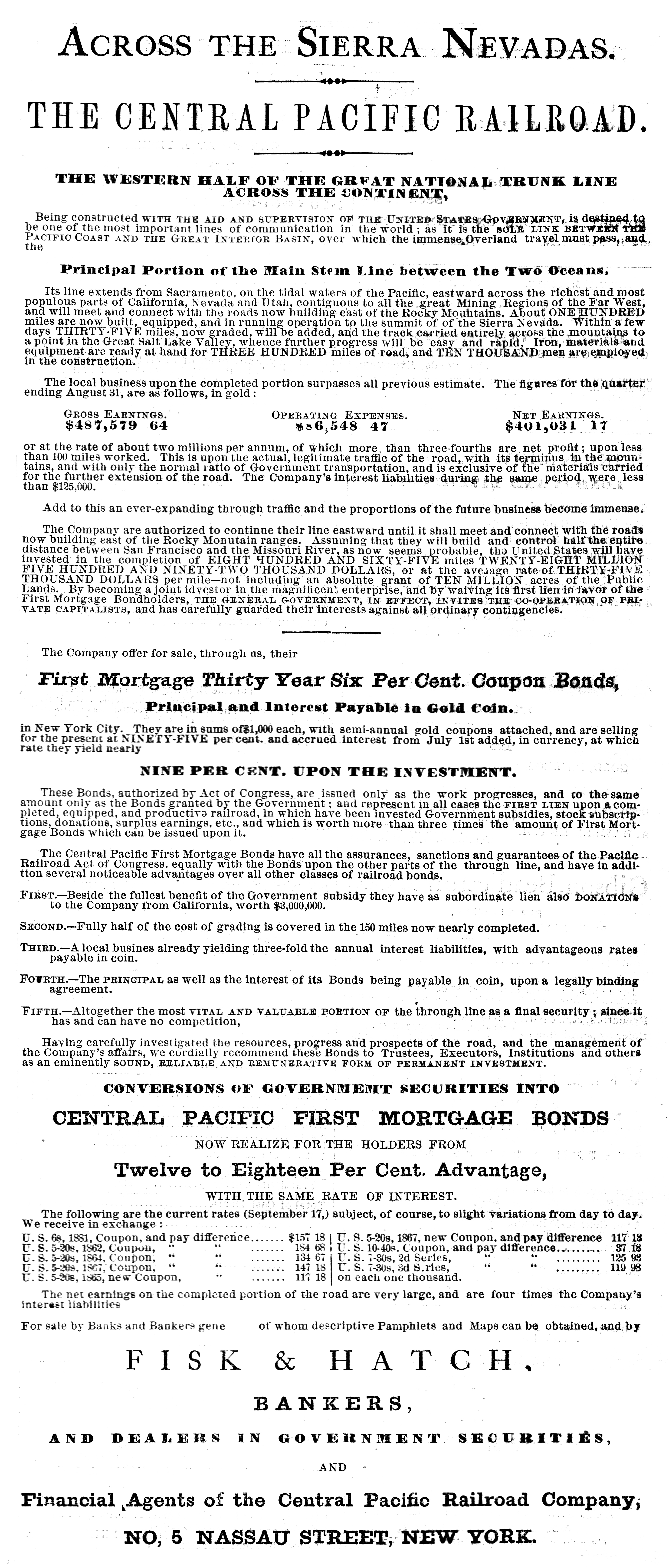 Advertisement for Central Pacific Railroad Co. First Mortgage Bonds, 1867 (placed by Fisk & Hatch, Bankers. New York)